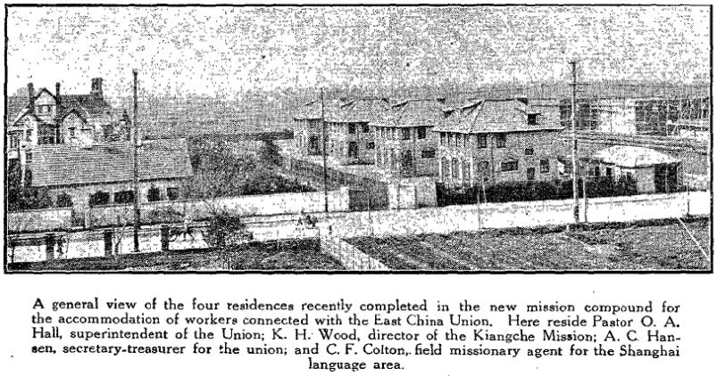 This picture helps put a visual touch to the Kenneth H. Wood entry.